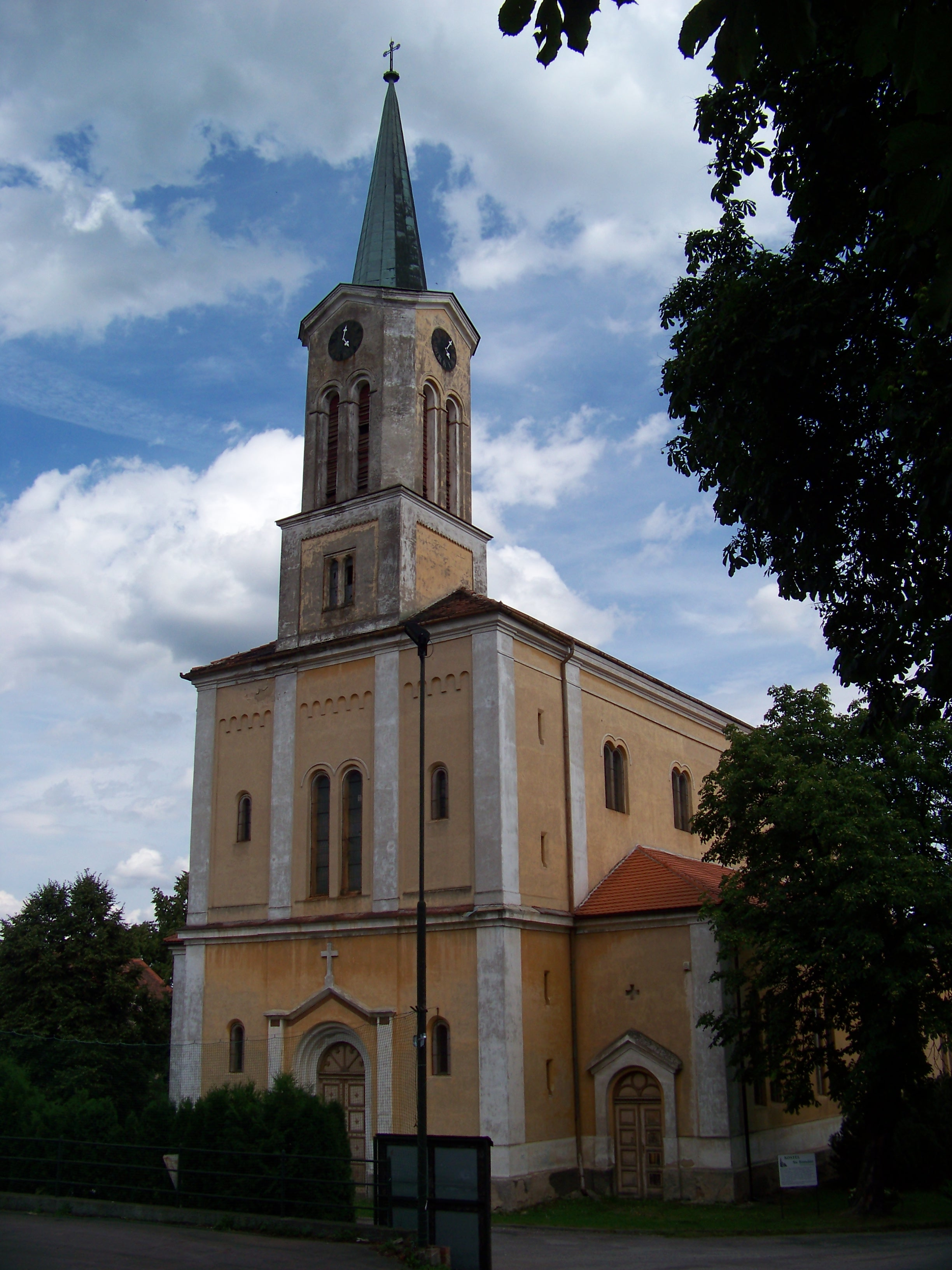 Hudlice, Beroun District, Central Bohemian Region, the Czech Republic. Jungmannova street, Saint Thomas church.